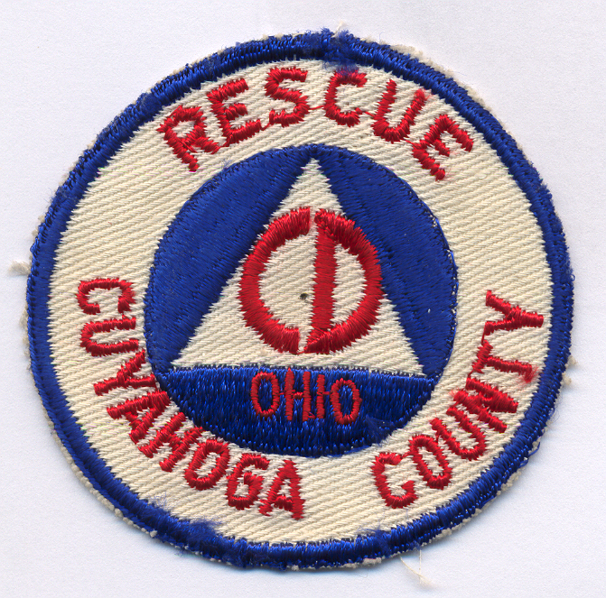 United States Civil Defense patch, Cuyahoga County, Ohio.